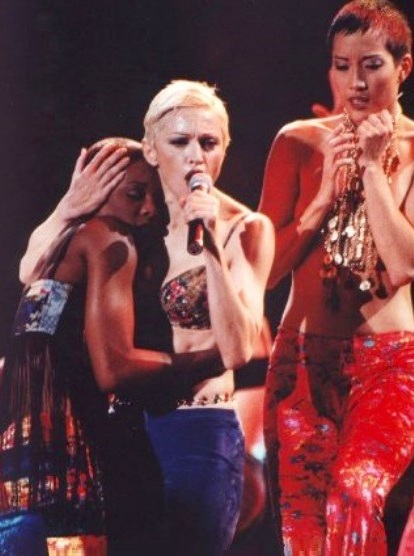 Photo taken during one of the concerts in 1993